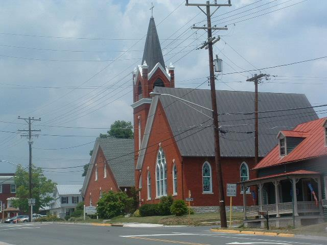 A view of Trinity Lutheran Church on Fairfax Street in Stephens City, Virginia (as seen in 2007)